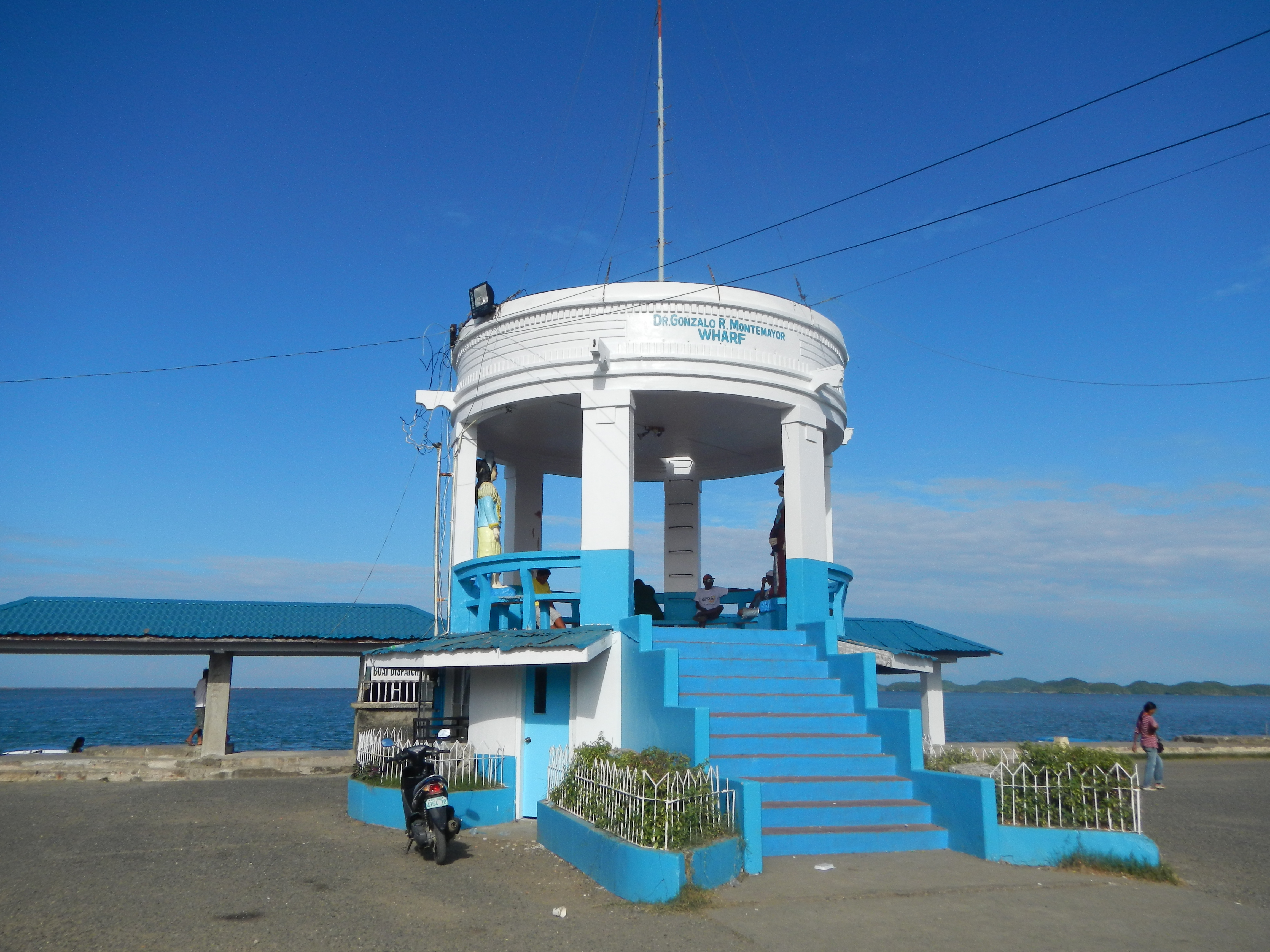 Hundred Islands National Park[1]